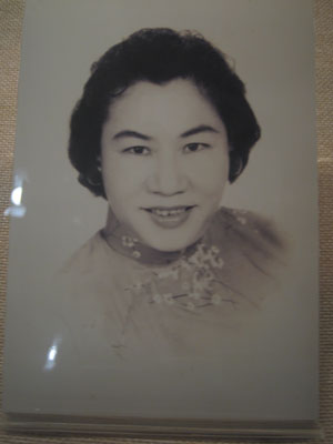 Depicted person: Cheung Yuet-yee – Cantonese opera singer